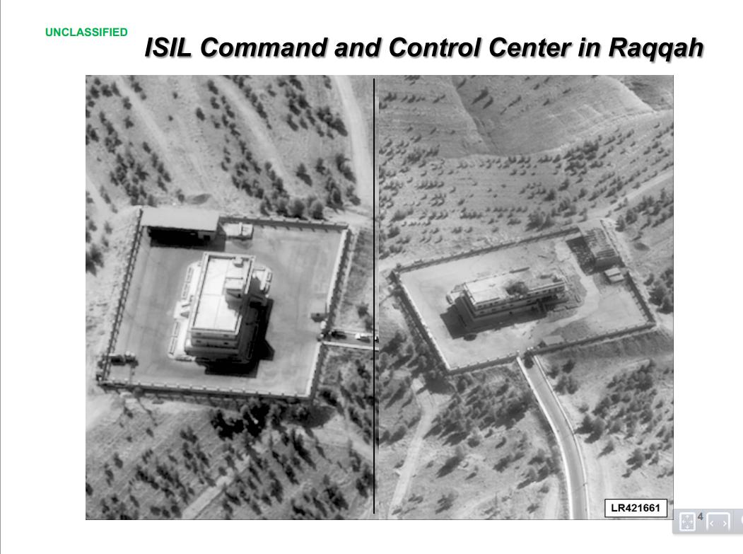 Strikes in Syria and Iraq, Sept. 23, 2014. ISIL Command and Control Center in ar-Raqqah, Syria. Unclassified DoD Briefing.